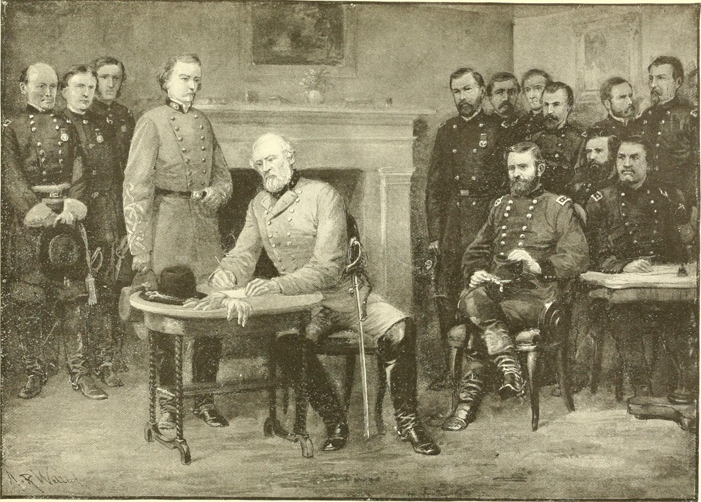 Title: From 1800 to 1900. The wonderful story of the century; its progress and achievements .. Year: 1899 (1890s) Authors: Morris, Charles, 1833-1922 Subjects: Nineteenth century Publisher: Chicago, Ill., A.B. Kuhlman Company Text Appearing Before Image: Sometime afterwards took place the most famous event in Sheridan's career. During an absence at Washington his camp at Cedar Creek was surprised by Early, the men were driven back in disorderly rout, and eighteen.... Text Appearing After Image: Surrender of General Lee to General Grant at Appomattox Courthouse, April 9, 1865